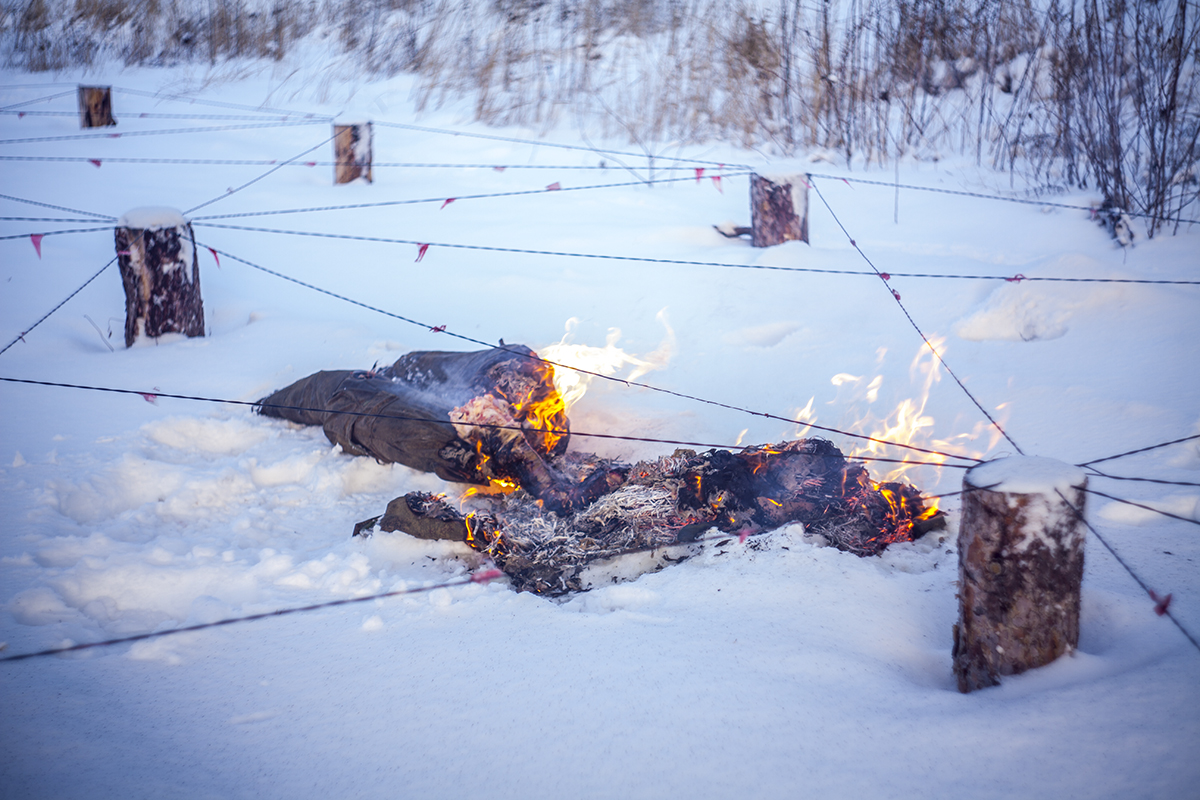 Obstacle course in 3rd Motor Rifle Division.